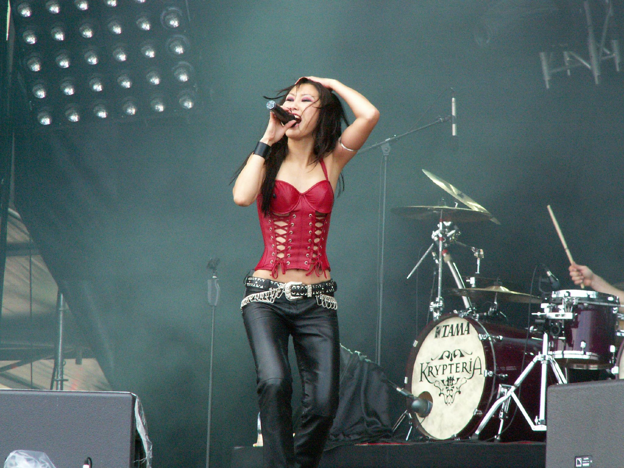 Krypteria (Ji-In Cho) at M'era Luna 2007 in Hildesheim